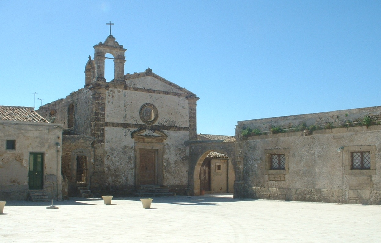 Marzamemi (Pachino-SR), Rest of the ancient church on the main square.